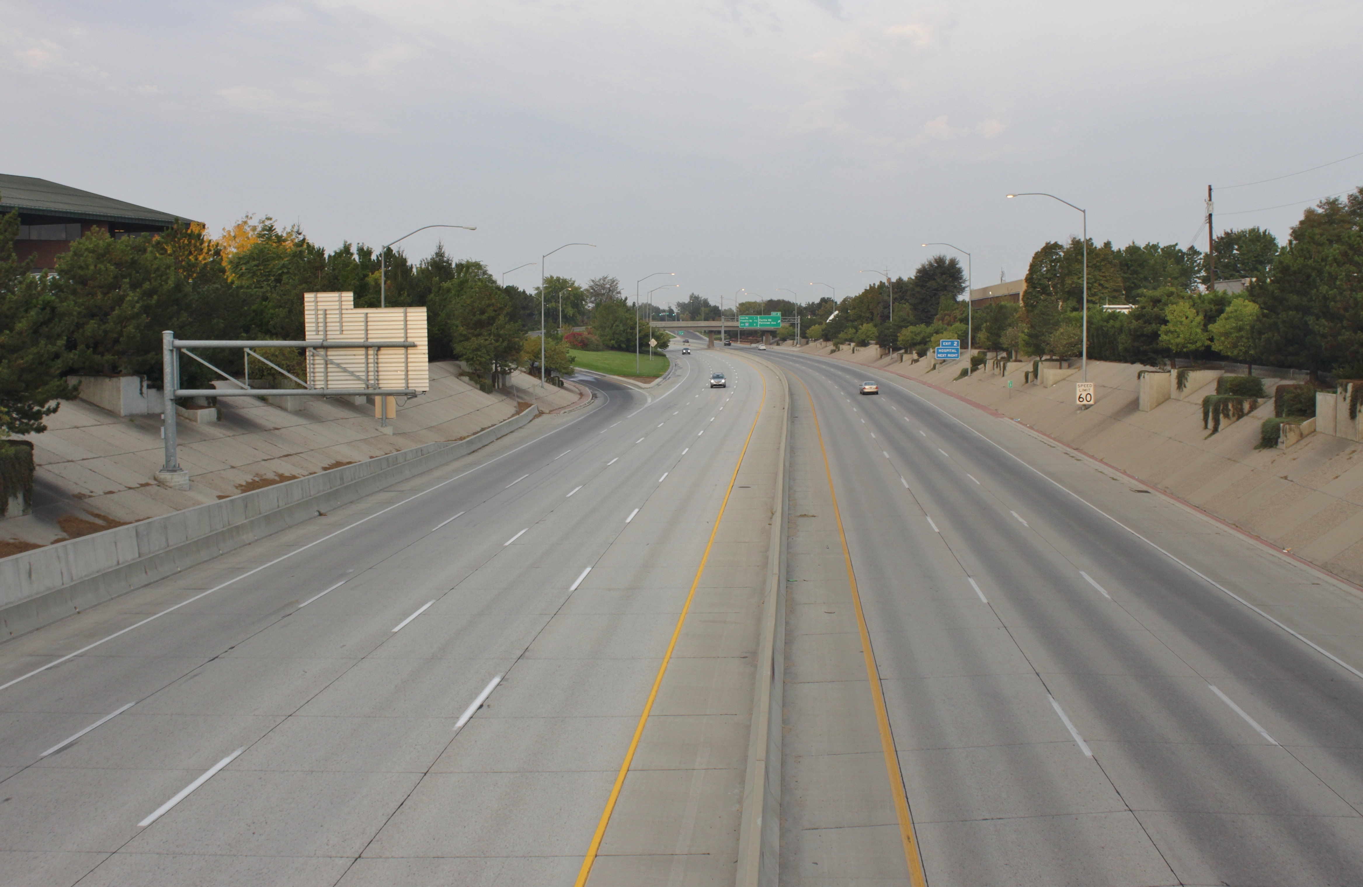 Looking eastbound on Interstate 184 in Boise, Idaho, from the Orchard Street overpass.